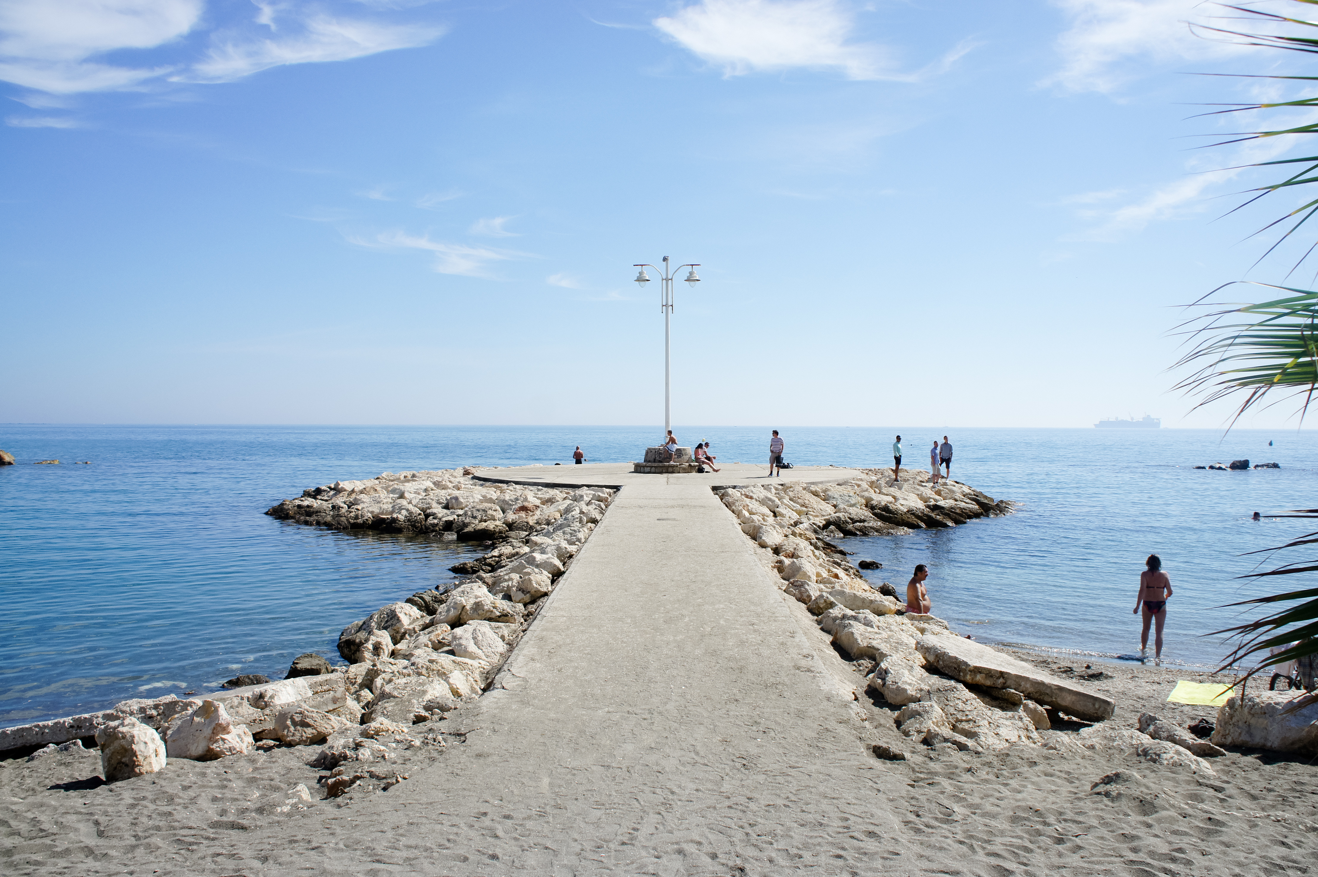 Pedregalejo beach, Málaga, Spain.